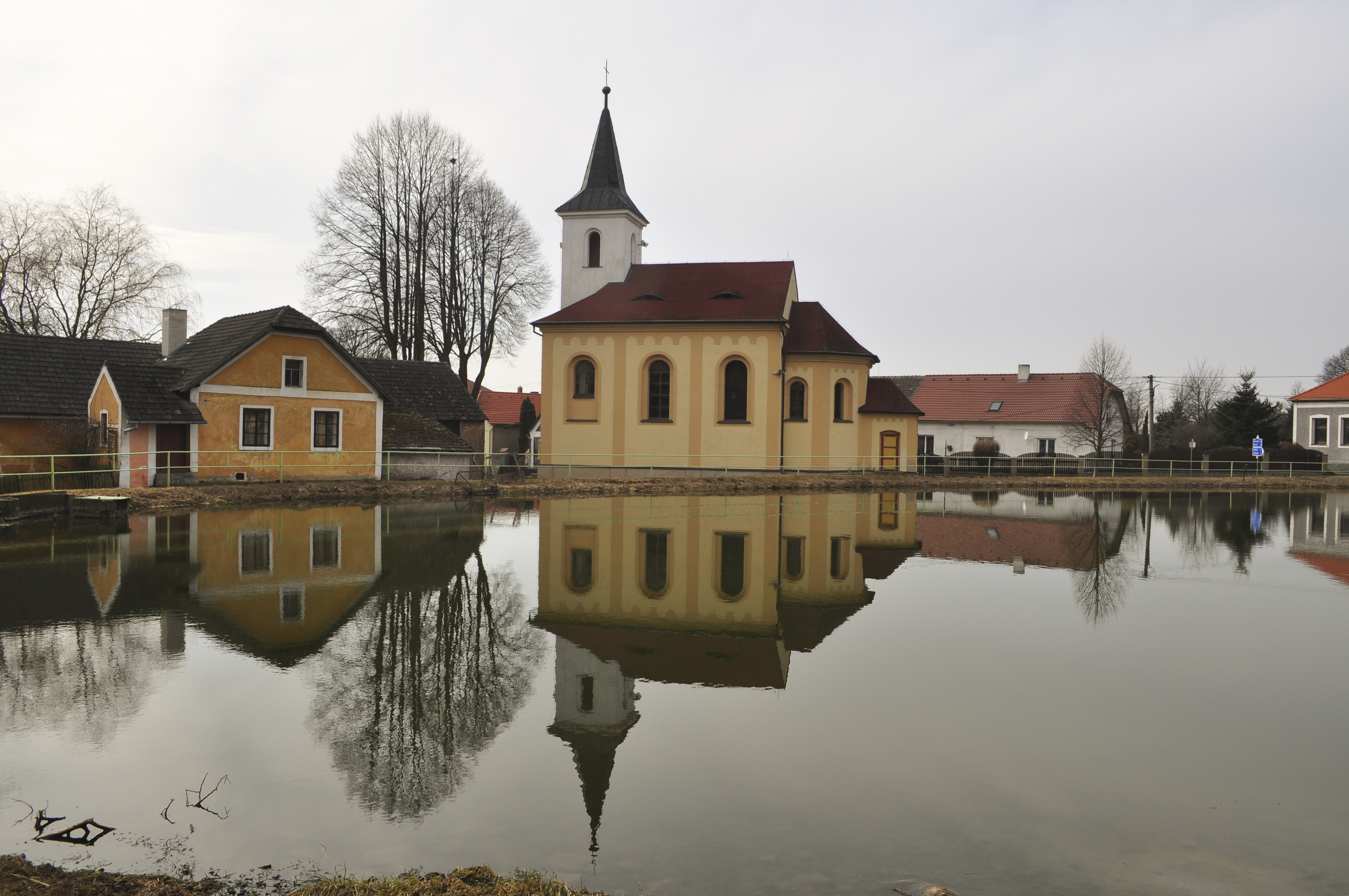 Church with pond